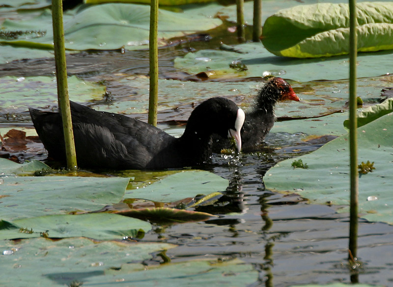 Common Coot Fulica atra in Hyderabad , India.